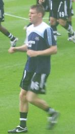 Photograph of English footballer James Milner during a warm-up session.